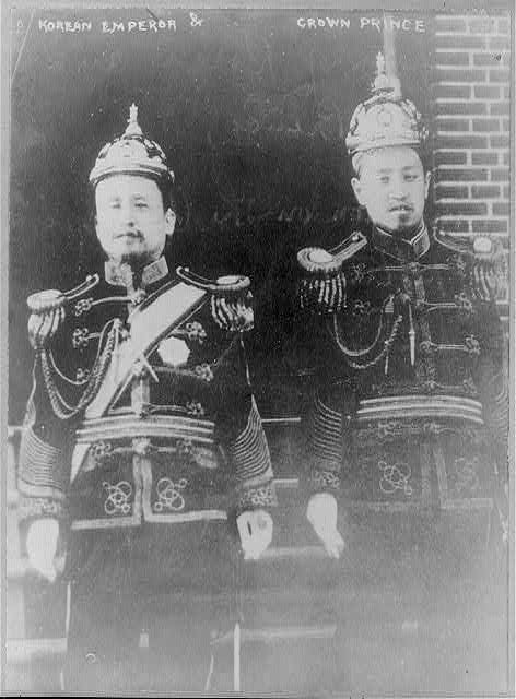 Korean Emperor Kojong and Crown Prince Yi Wang